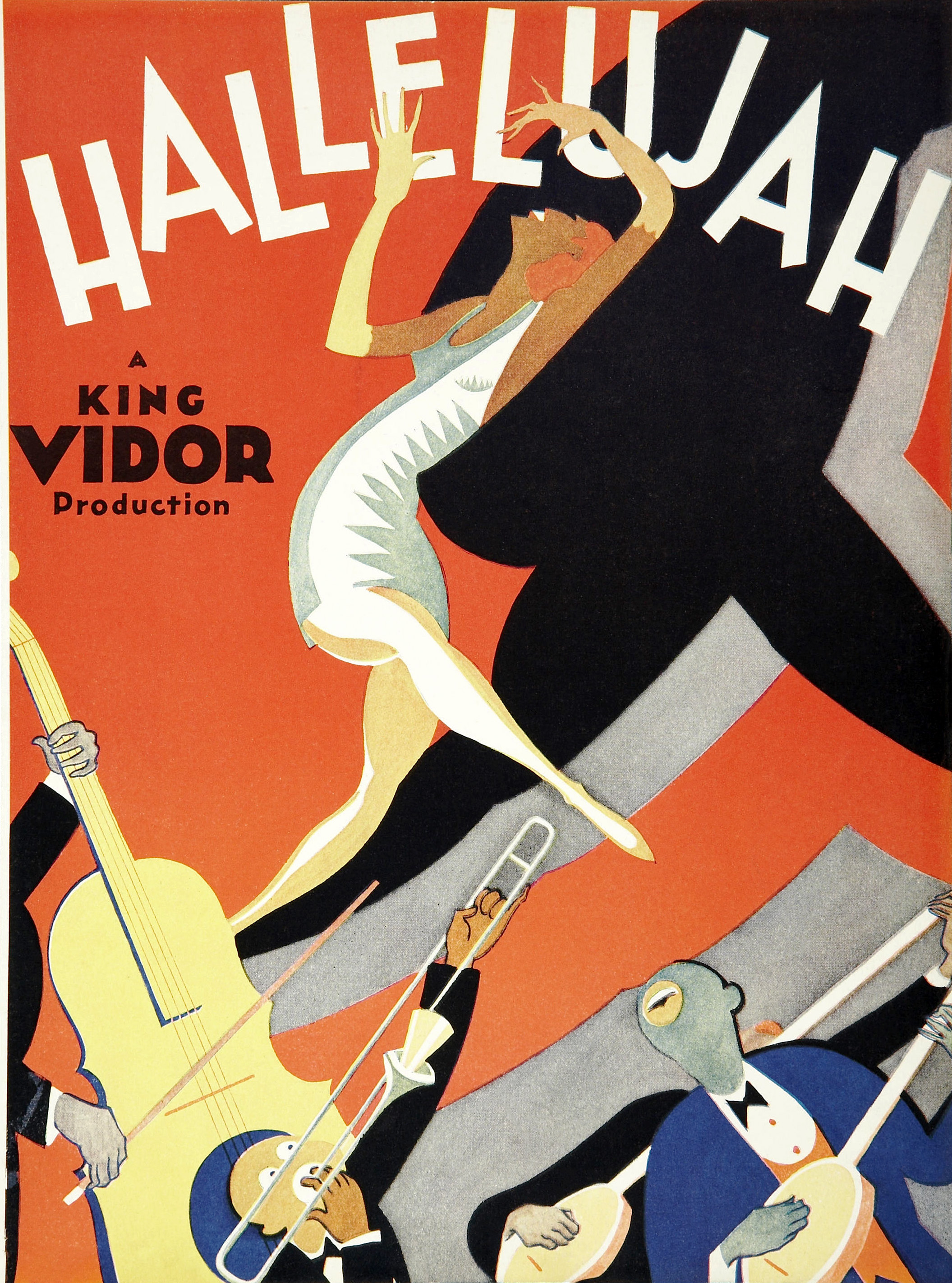 Ad sheet for the 1929 film Hallelujah.